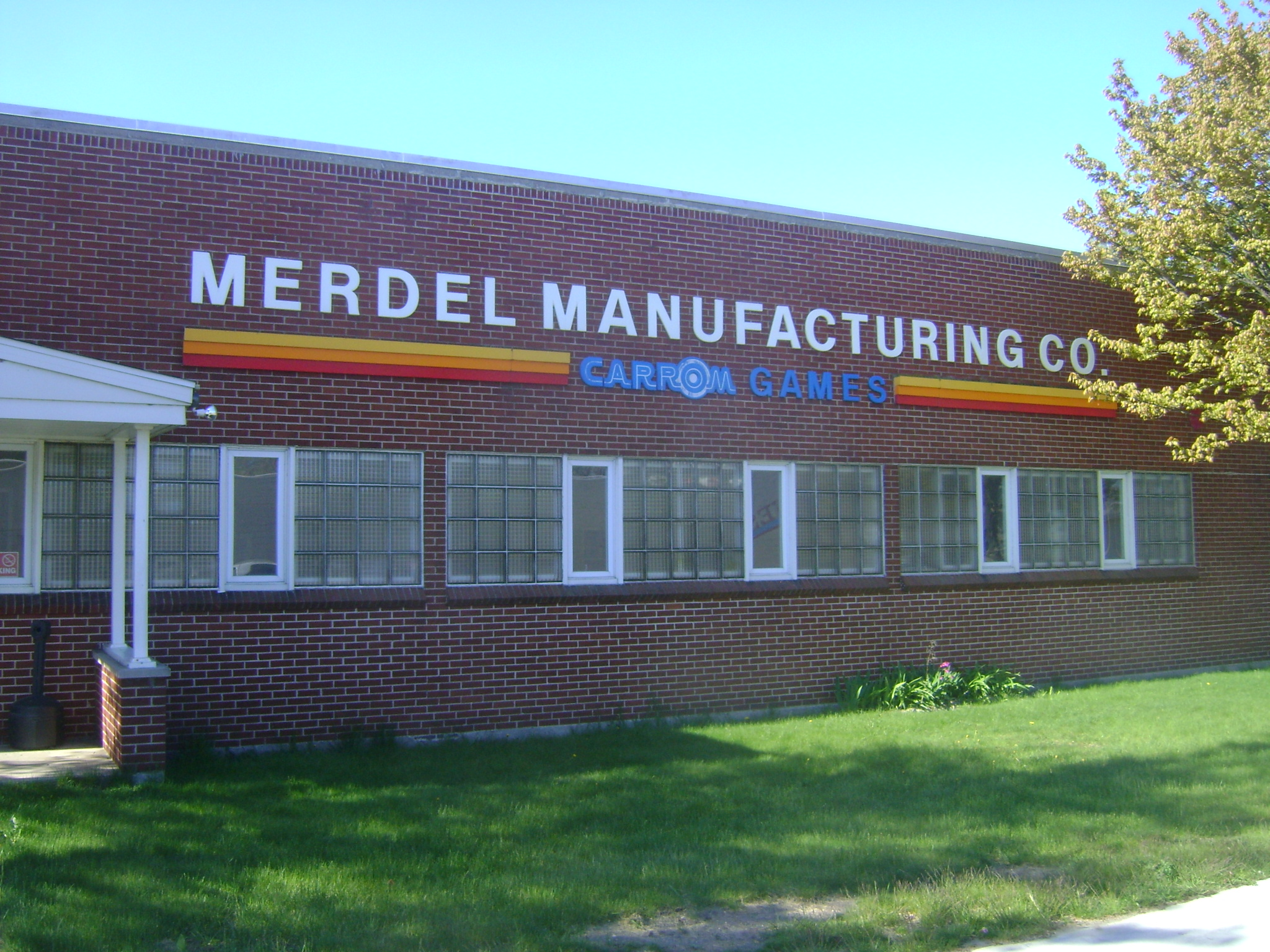 Merdell Manufacturing Co.